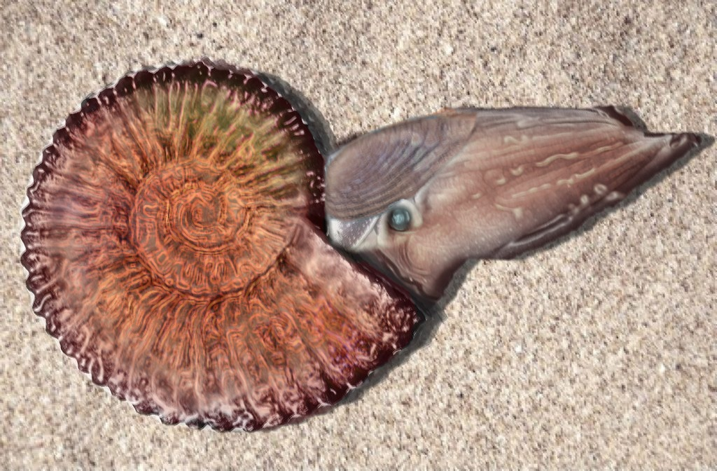 Ammonite: digital recreation.